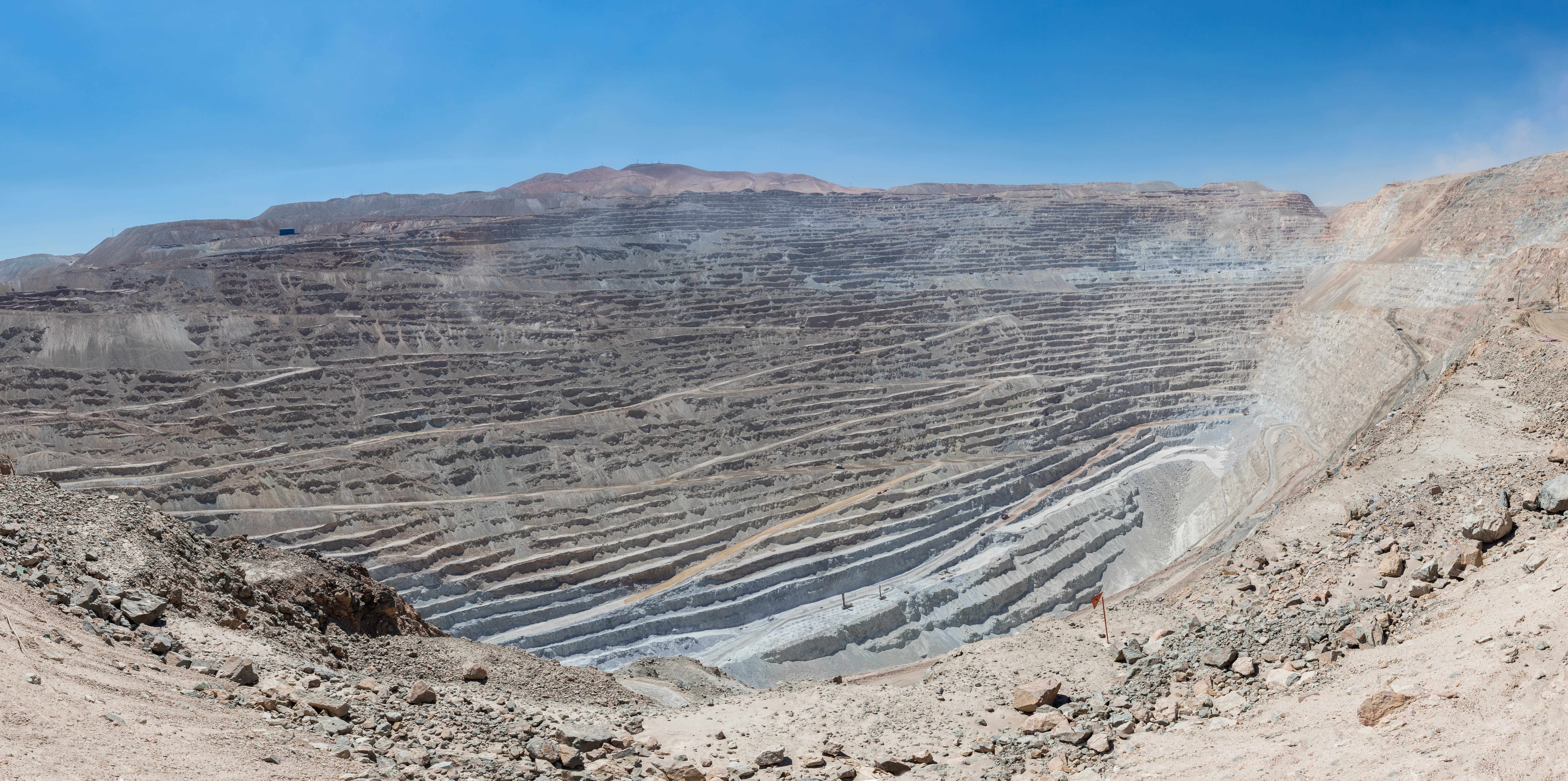 Panoramic view of Chuquicamata, a state-owned copper mine located at 2,850 metres (9,350 ft) above sea level just outside Calama, north of Chile. It is by excavated volume the largest open pit copper mine in the world. The huge hole was started in 1882 as a mine to extract gold and copper. It is 4.5 kilometres (2.8 mi) long, 3.5 kilometres (2.2 mi) wide and with a depth of 850 metres (2,790 ft) it is the second deepest open-pit mine in the world (after Bingham Canyon Mine in Utah, USA). Note: to get a feeling of the scale spot out a haul truck, which is 9.5 metres (31 ft) long and 4.5 metres (15 ft) high.